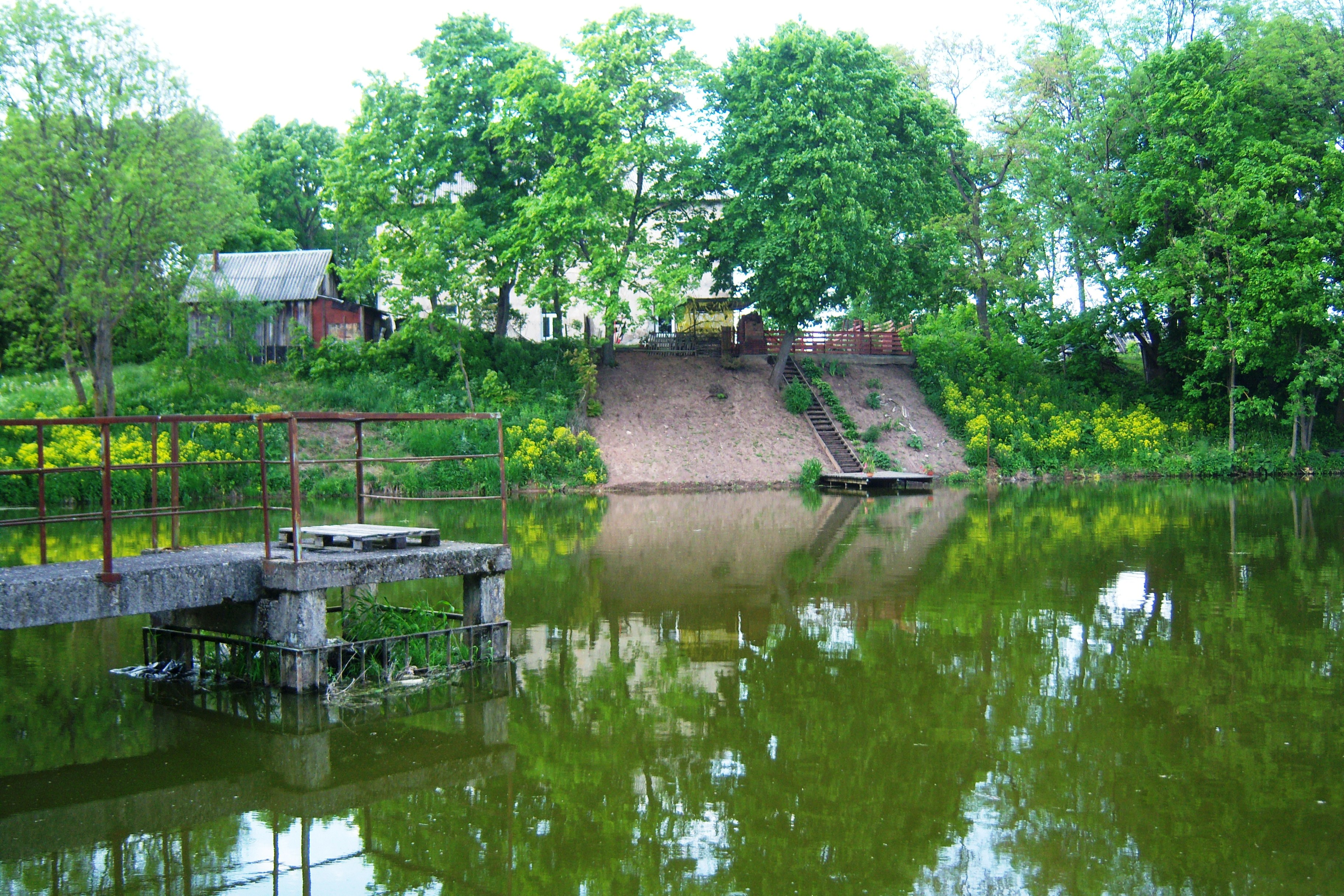 Pond by former manor in Romainiai, Kaunas. Lithuania